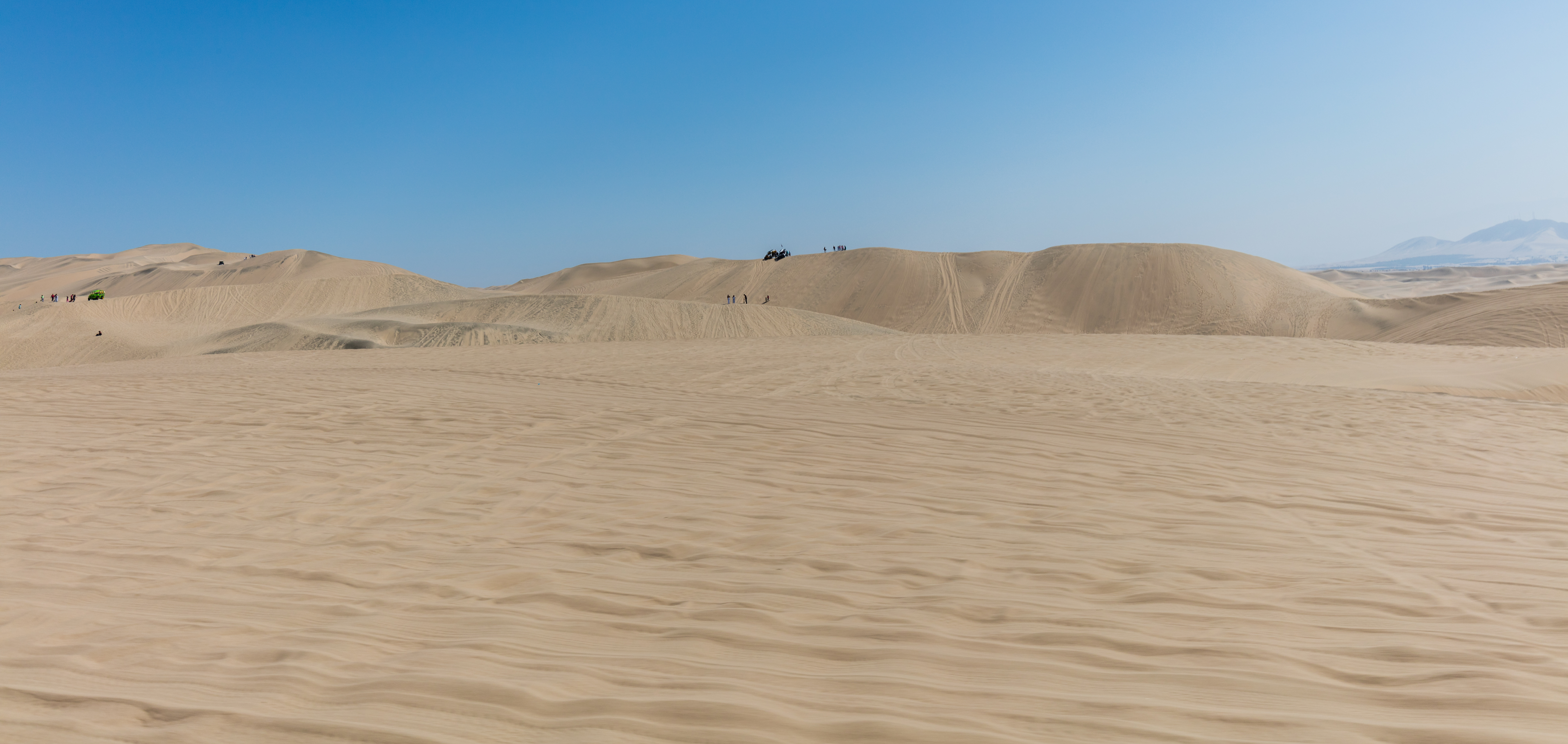 Dunes of Ica, Peru